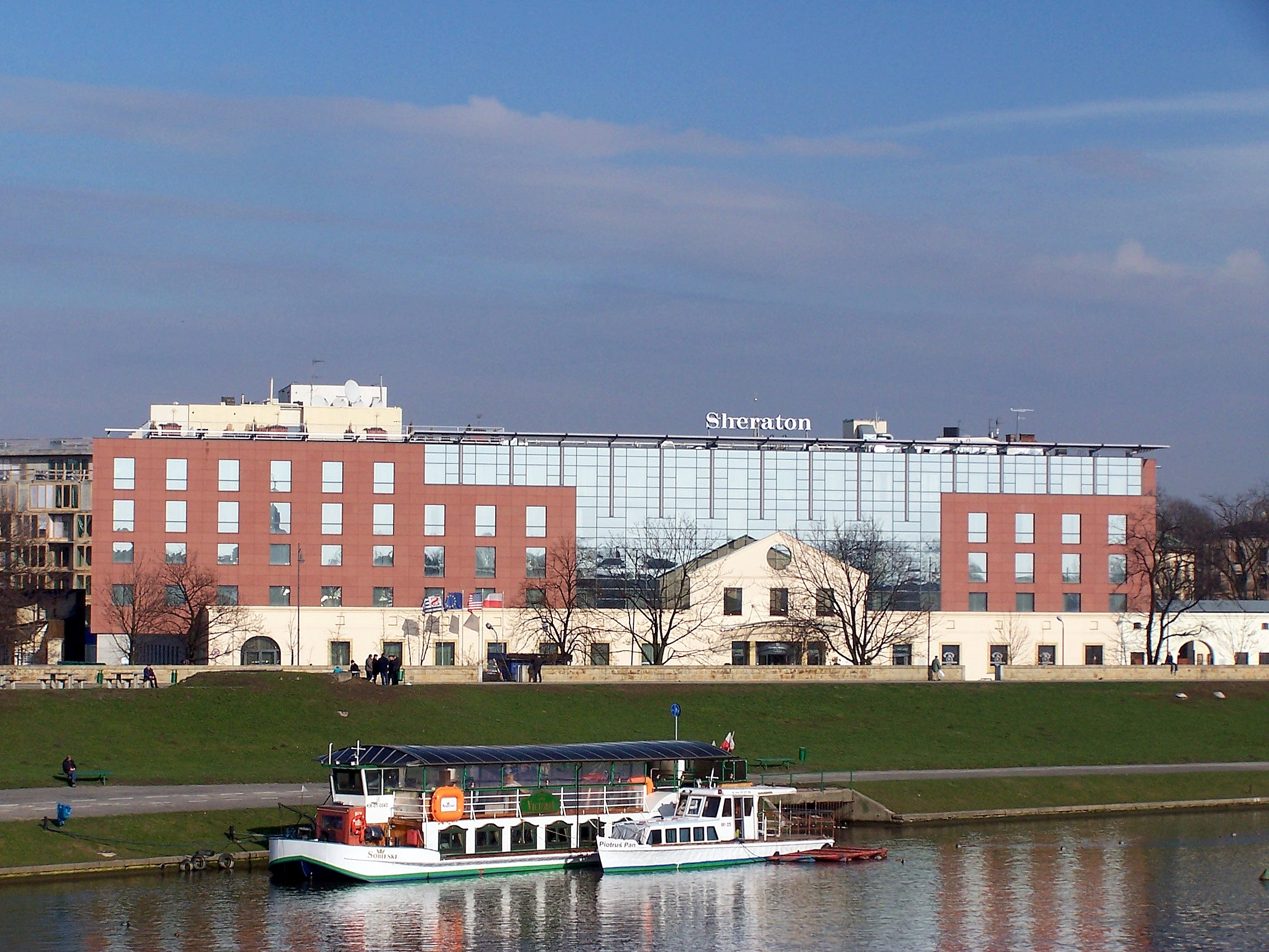 Hotel Sheraton (Cracow by Vistula).jpg